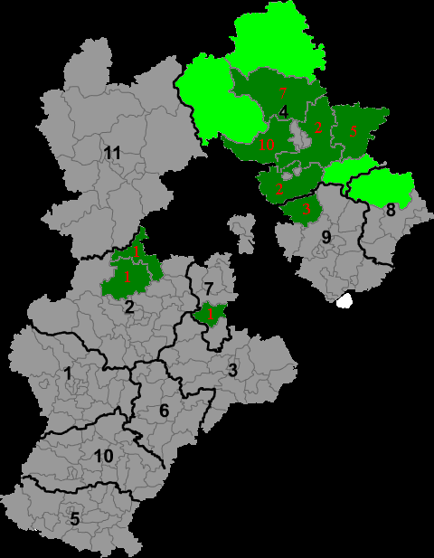 Light green is Manchu Autonomous County. Green is Manchu Ethnic Township. Red digit is qwantity of Manchu Ethnic Townships in county.